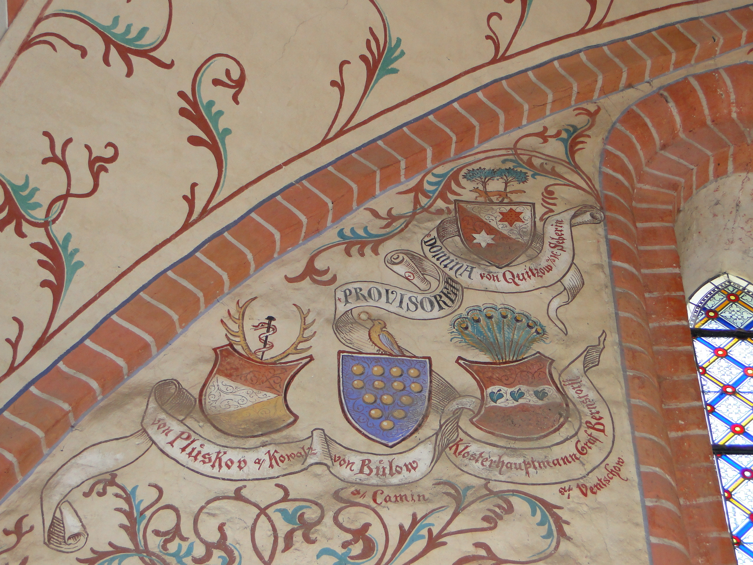 Church in Lohmen, district Güstrow, Mecklenburg-Vorpommern, Germany